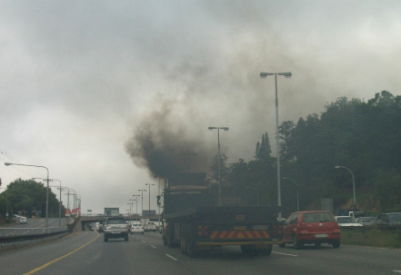 Air pollution from vehicles is one of the environmental problems posed by motorized tansport ; here on a highway in South Africa, with a truck emitting thick black smoke, soot rich, because due to a glaring lack of Maintenance